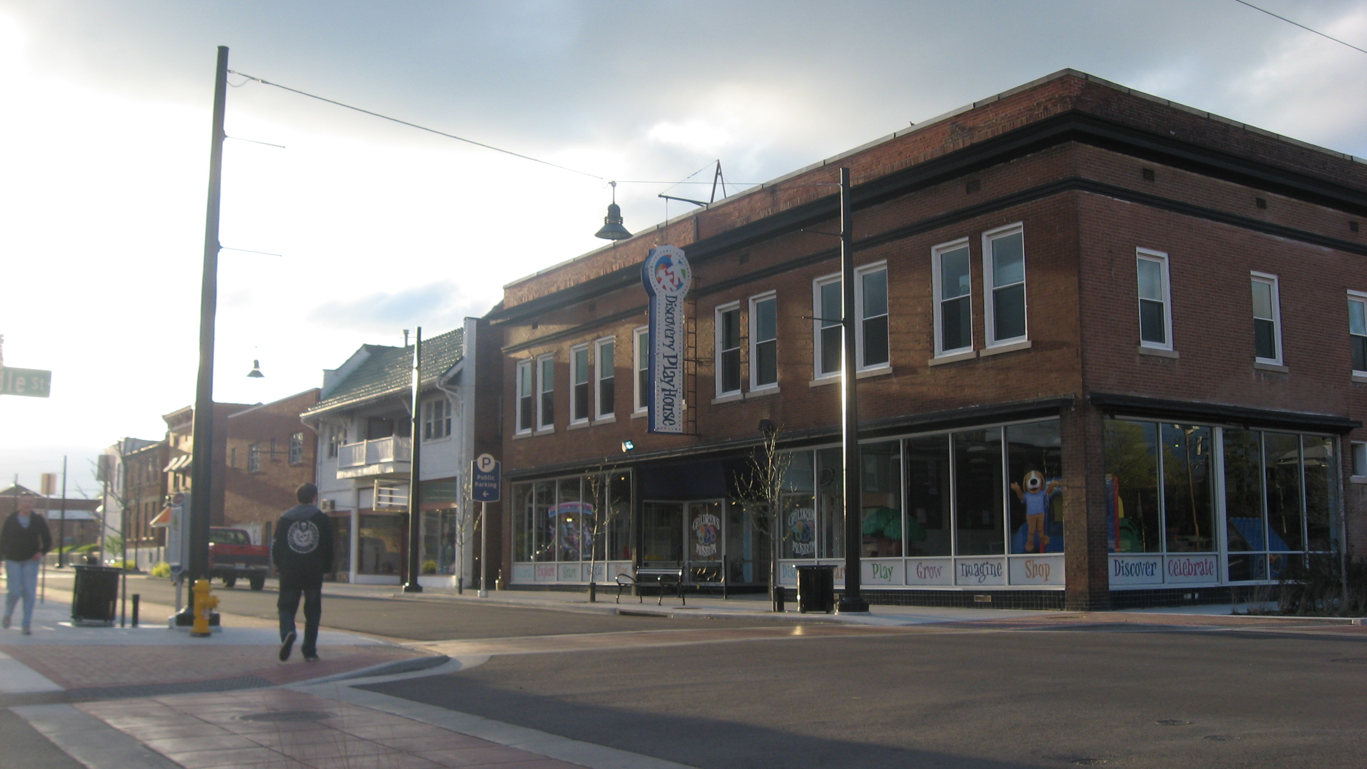 Buildings on the northern side of Broadway Street west of the Middle Street intersection in downtown Cape Girardeau, Missouri, United States. From right to left, the buildings are: 502 Broadway, built 1916 510-512 Broadway, built 1925 514-516 Broadway, built 1884 and unsympathetically modified in the 1960s 520 Broadway, built 1907 528 Broadway, built 1884 530 Broadway, built 1907 This portion of Broadway is part of the Broadway and North Fountain Street Historic District, a historic district that is listed on the National Register of Historic Places.